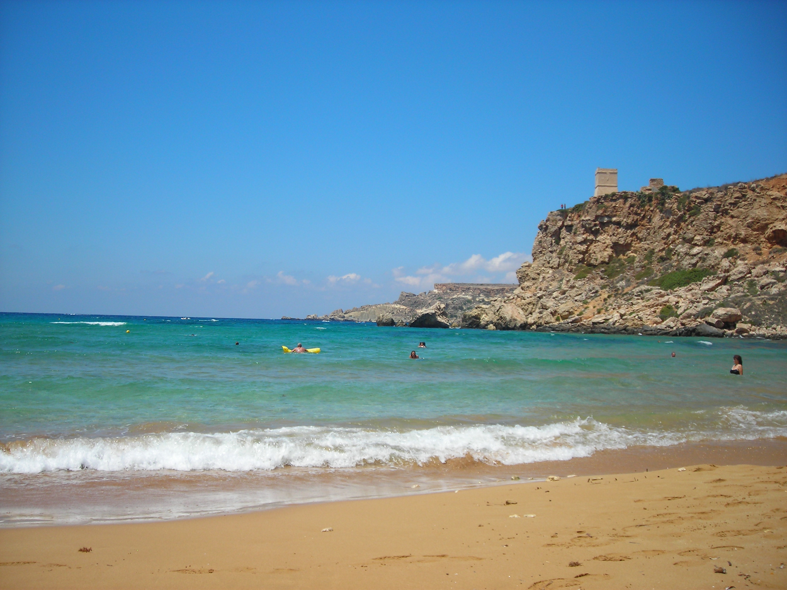 Għajn Tuffieħa Tower as seen from GT Bay